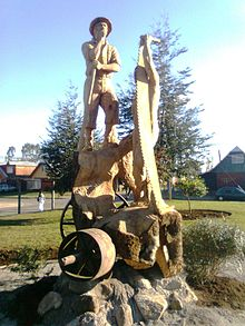 Escultura a Labranza